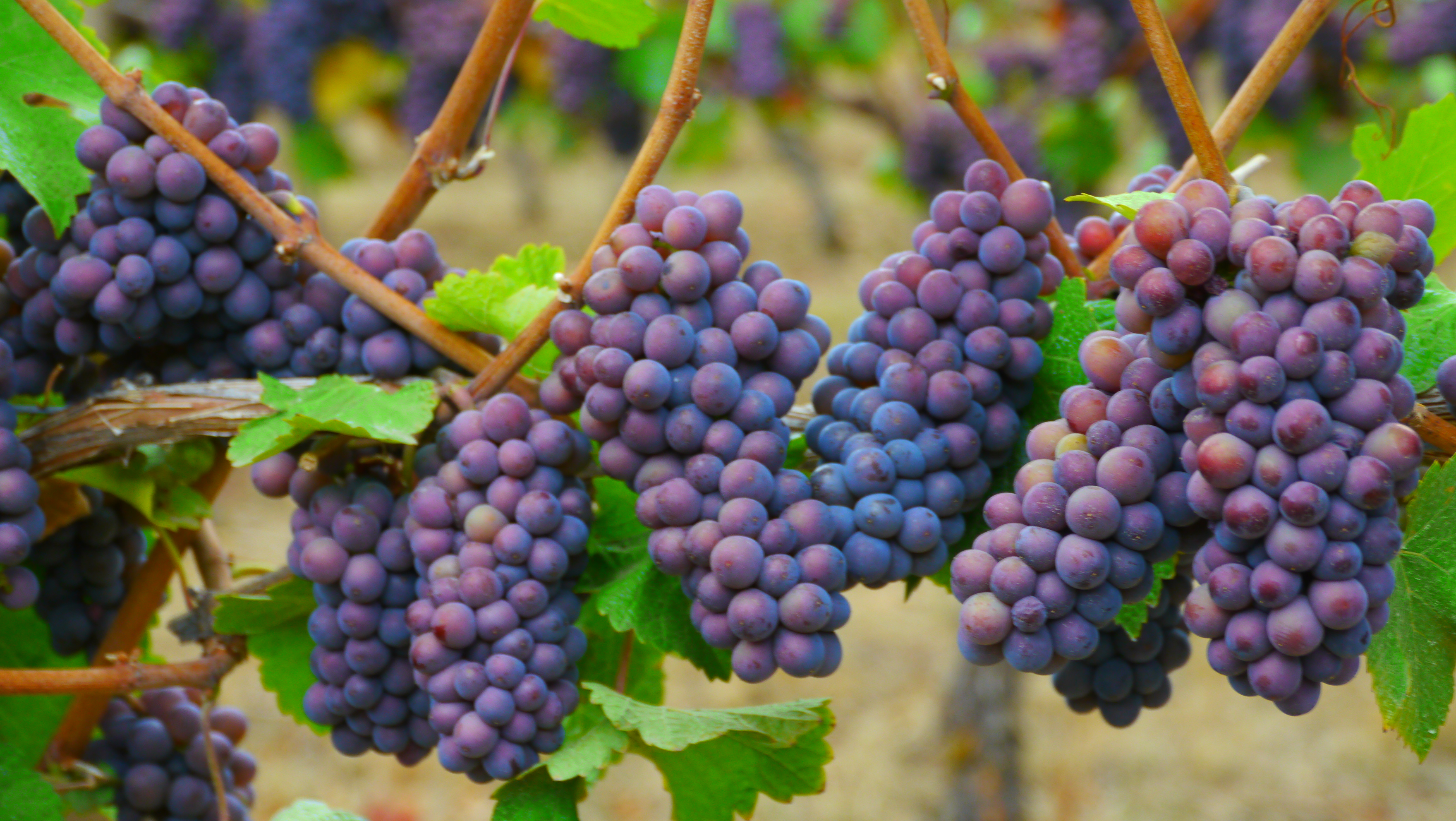 Pinot gris grape clusters Iris Vineyards Near Eugene, Oregon Richard Boyles and Pamela Frye planted Chalice Vineyard at Iris Hill from 1996 to 1998 on what would become their family’s estate. Located in the Lorane Valley, 20 minutes southwest of Eugene, Oregon, the vineyard is ideally situated in the cool climate of the Oregon Coastal Range foothills, allowing the grapes to mature slowly while maintaining the proper acid balance that is essential for producing the finest Pinot Noir, Pinot Gris and Chardonnay. In 2004, Arpad Walker took over management of the vineyard and oversaw its expansion over the last decade. (